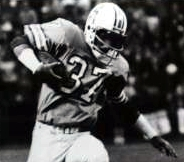 A press photograph of Houston Oilers safety Mike Reinfeldt, circa 1979-1983.